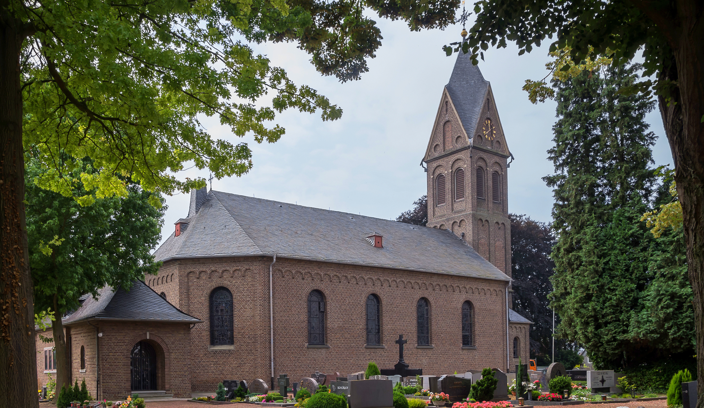 Kirchtroisdorf - Schwarzer Weg 2 Kath. Pfarrkirche IIIThis is a photograph of an architectural monument., no. 24